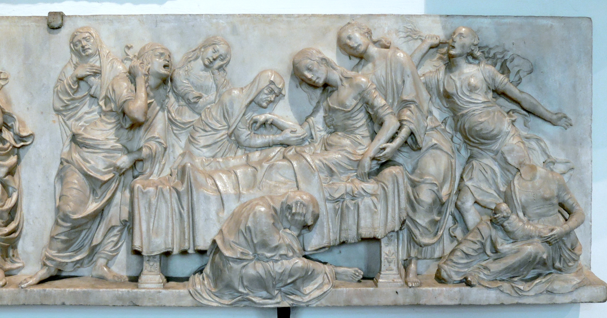 Museo del Bargello ( Florence ). Marble relief ( 15th century ) by Andrea del Verrocchio: Death of Francesca Pitti Tornabuoni after childbirth.